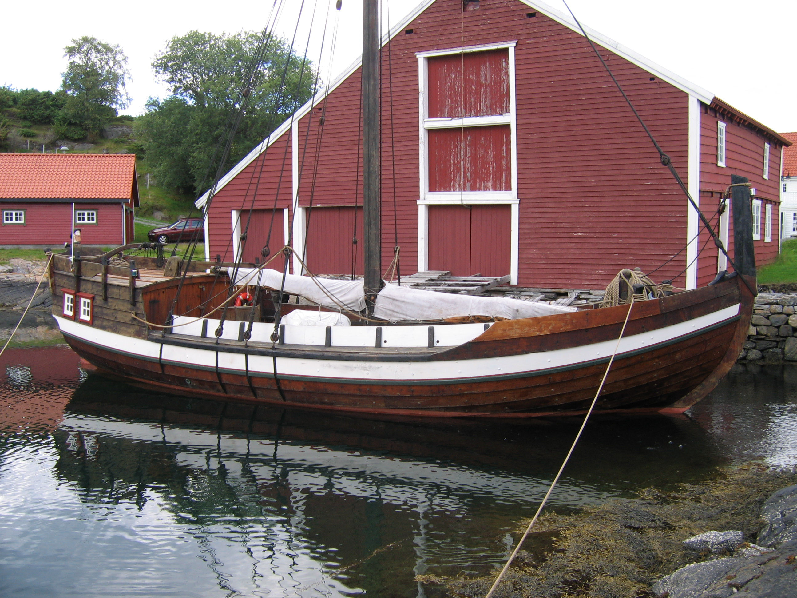 Anna Olava, reconstruction of a sailing ship of the type "Sunnmørsjekt", used for trade in dried cod in northern and western Norway from medieval times to the early 20th century. The reconstruction is exhibited at Herøy kystmuseum, Herøy, Møre og Romsdal, Norway.